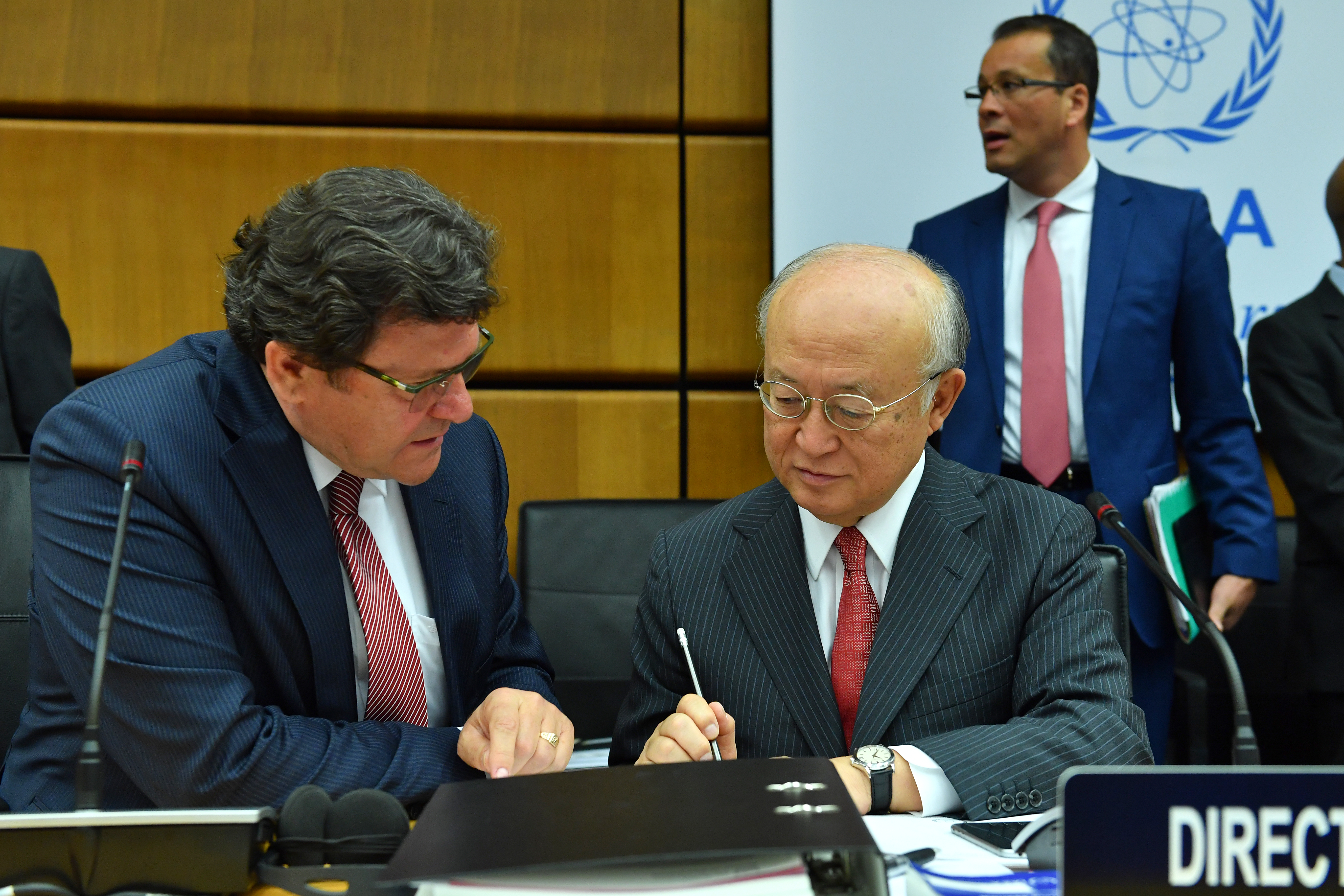 Zef Maji, Special Assistant to the Director General for Strategy, confer with IAEA Director General Yukiya before the start of the 1460th Board of Governors Meeting. IAEA, Vienna, Austria, 12 June 2017 Photo Credit: Dean Calma / IAEA